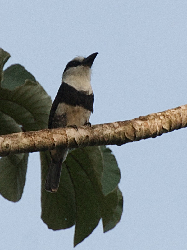 White-necked Puffbird perching in a tree in Belize.